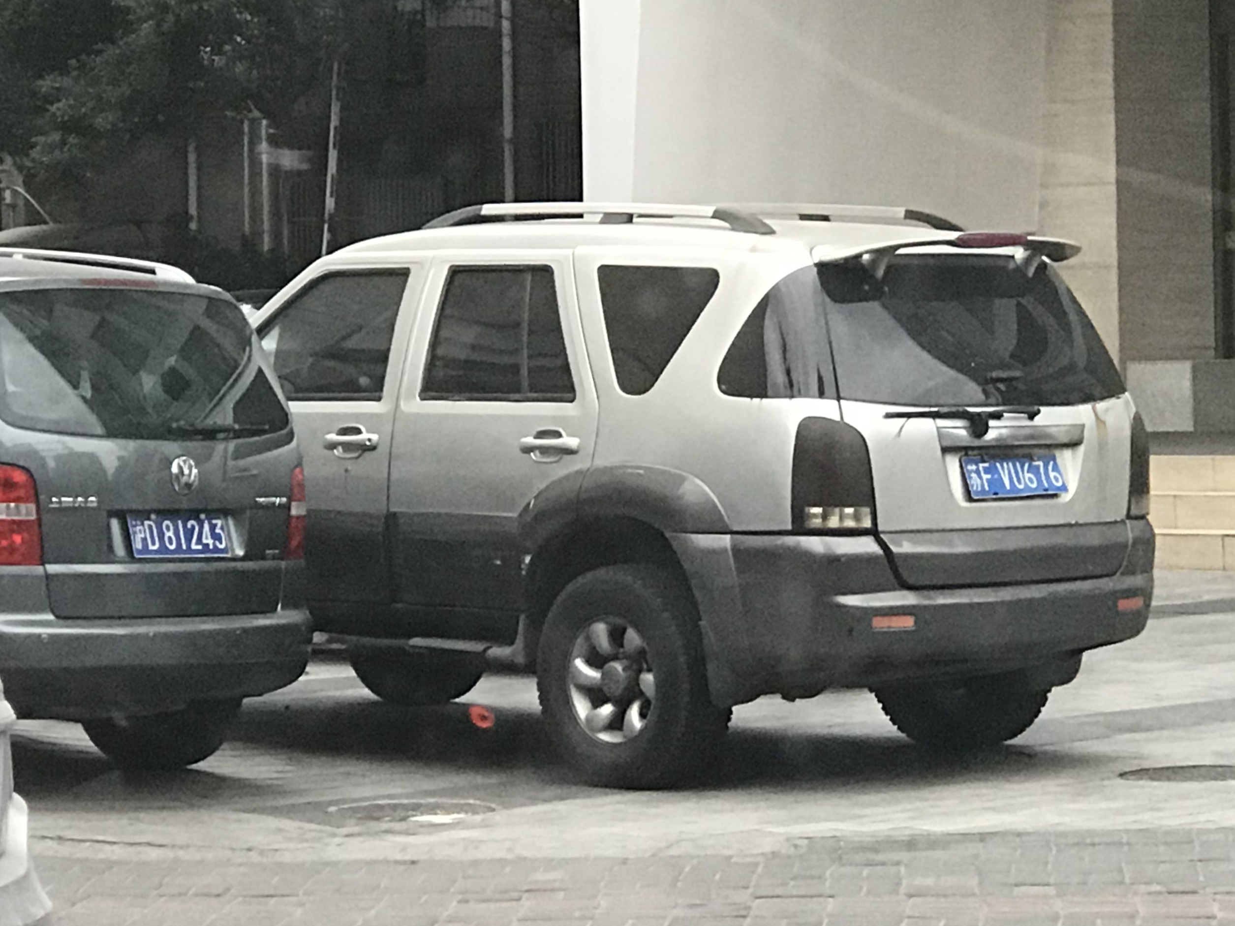 Huanghai Aurora rear